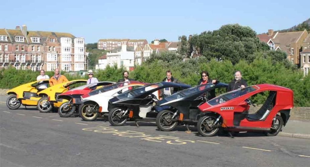 Seven Quasar (motorcycle)s, with their owners, 1/3rd of all Quasars in existence.